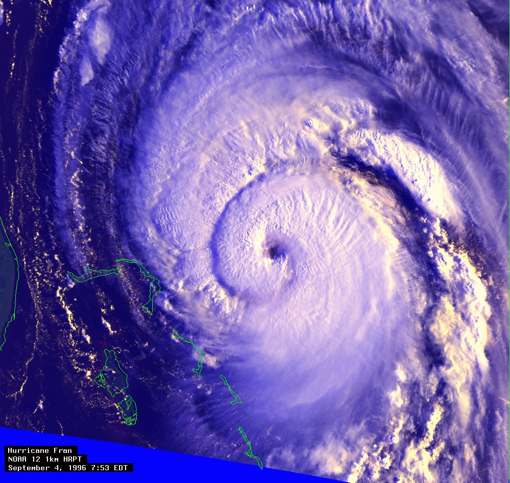 An HRPT image from NOAA-12 taken on September 4, 1996.